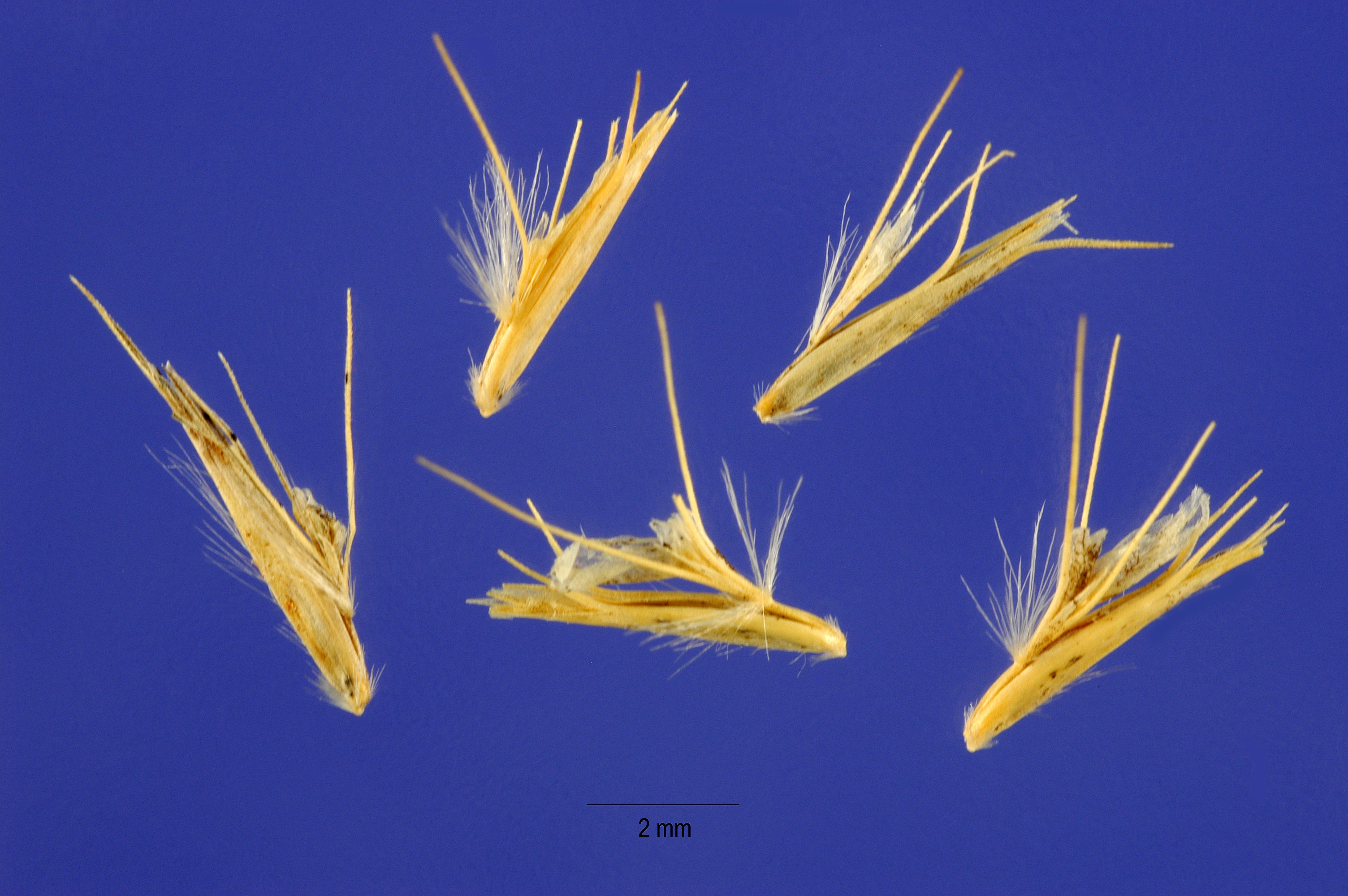 seeds of Bouteloua gracilis from Steve Hurst, Provided by ARS Systematic Botany and Mycology Laboratory. United States, AZ.